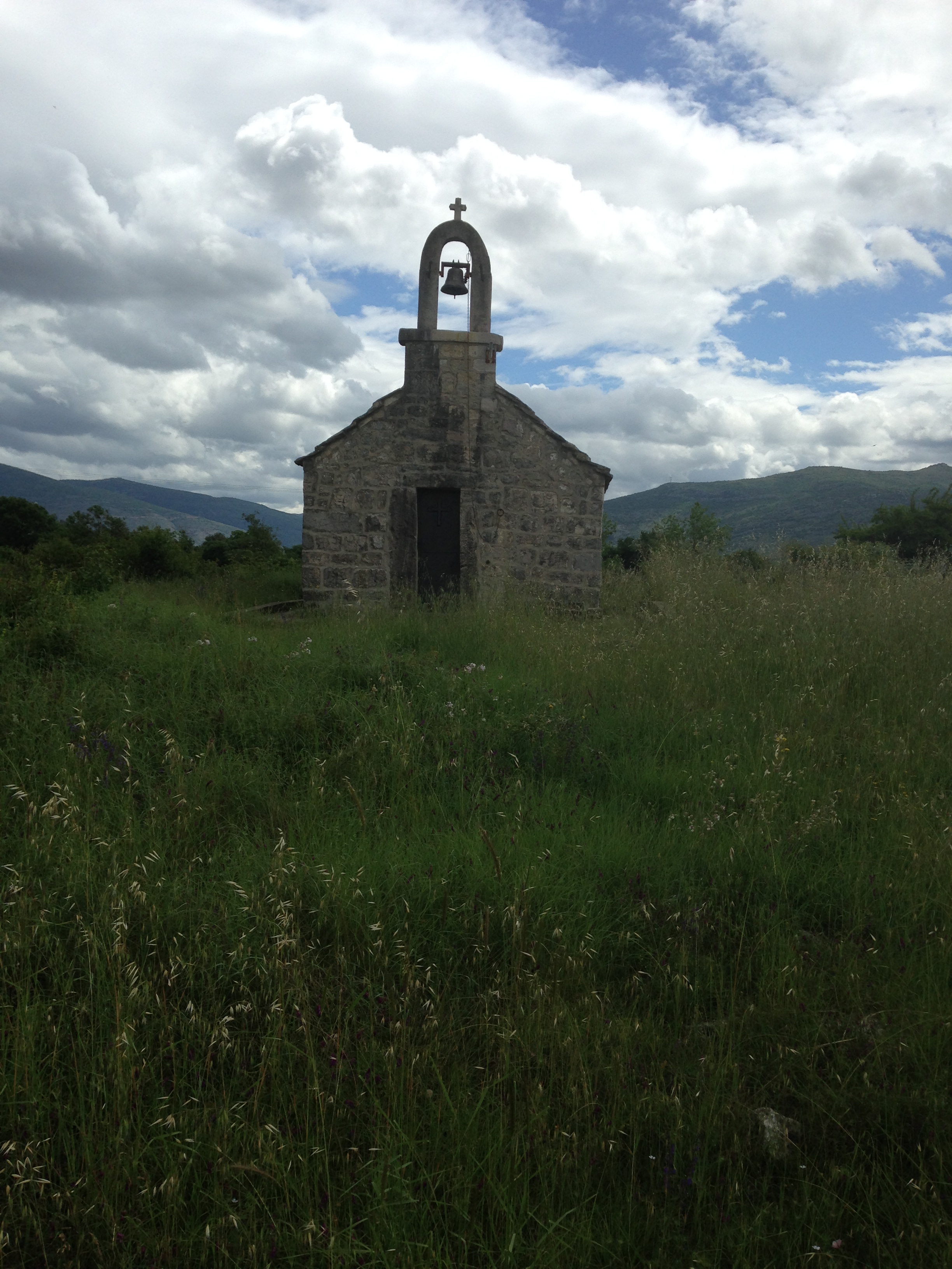 Church Saint Petka Trebinje